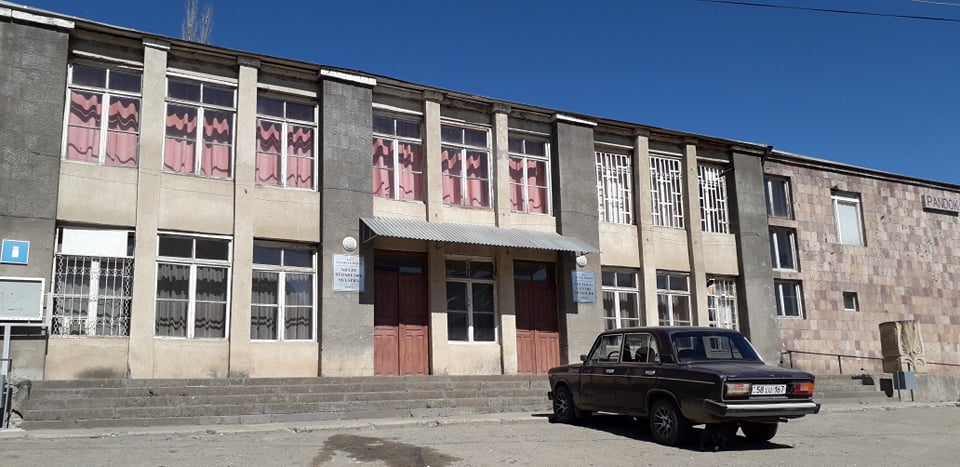 This is Koghb Cultural Center.